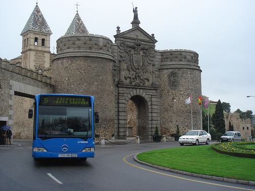 Puerta de Bisagra (10th century).